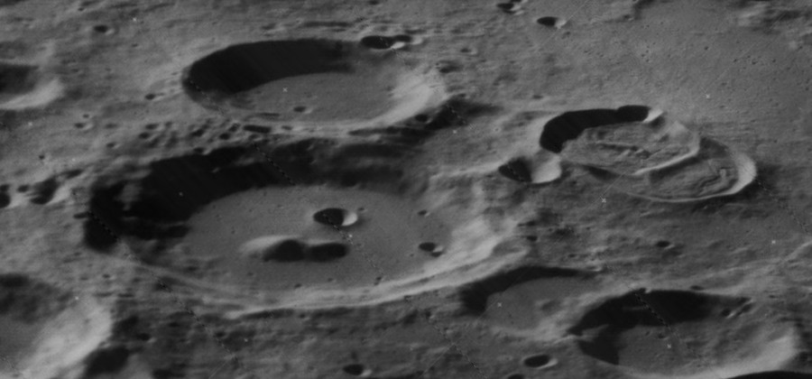 Oblique view of Sarton crater (lower left), Weber crater (upper left), and Sarton Y and Z craters (right), on the far side of the moon, facing west.